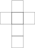 the net of the Hexahedron (vulgo Cube)